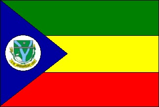 Bandeira Aragarças